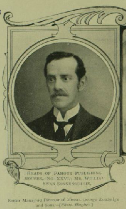 William Swan Sonnenschein (later William Swan Stallybrass) was Managing Director of Messrs. George Routledge and Sons, London.